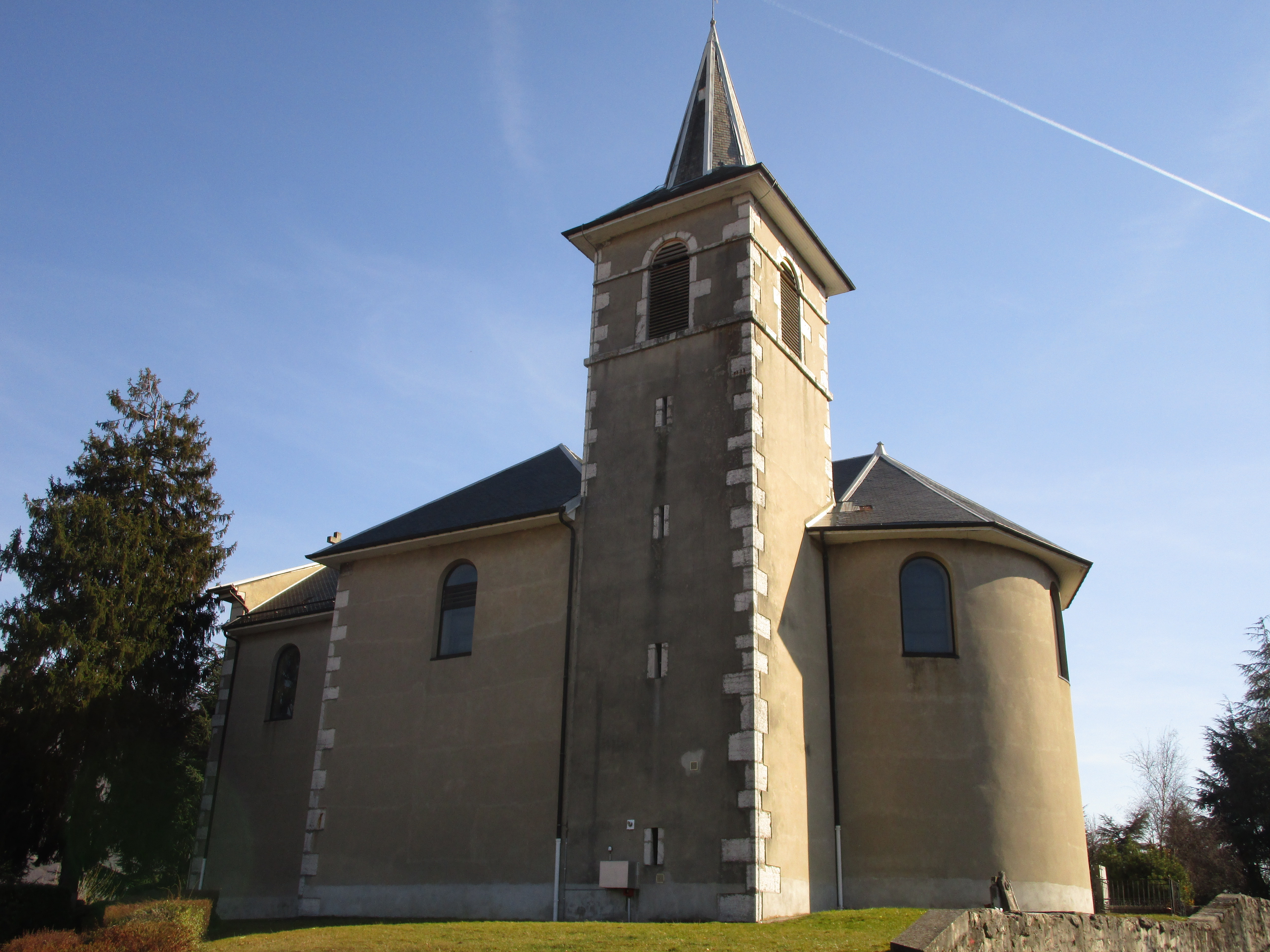 The church Saint-Étienne of La Ravoire on February 25, 2017.